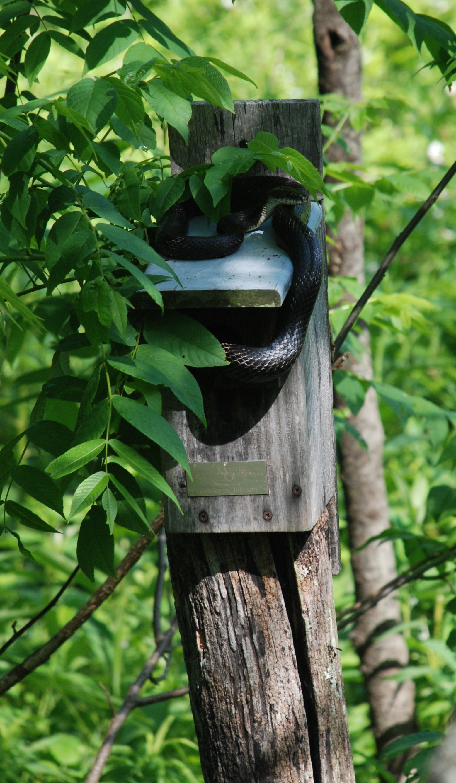 Black Ratsnake, Elaphe obsoleta in partially stuck in the blue bird birdhouse along Virginia Creeper Trail in South West Virginia.